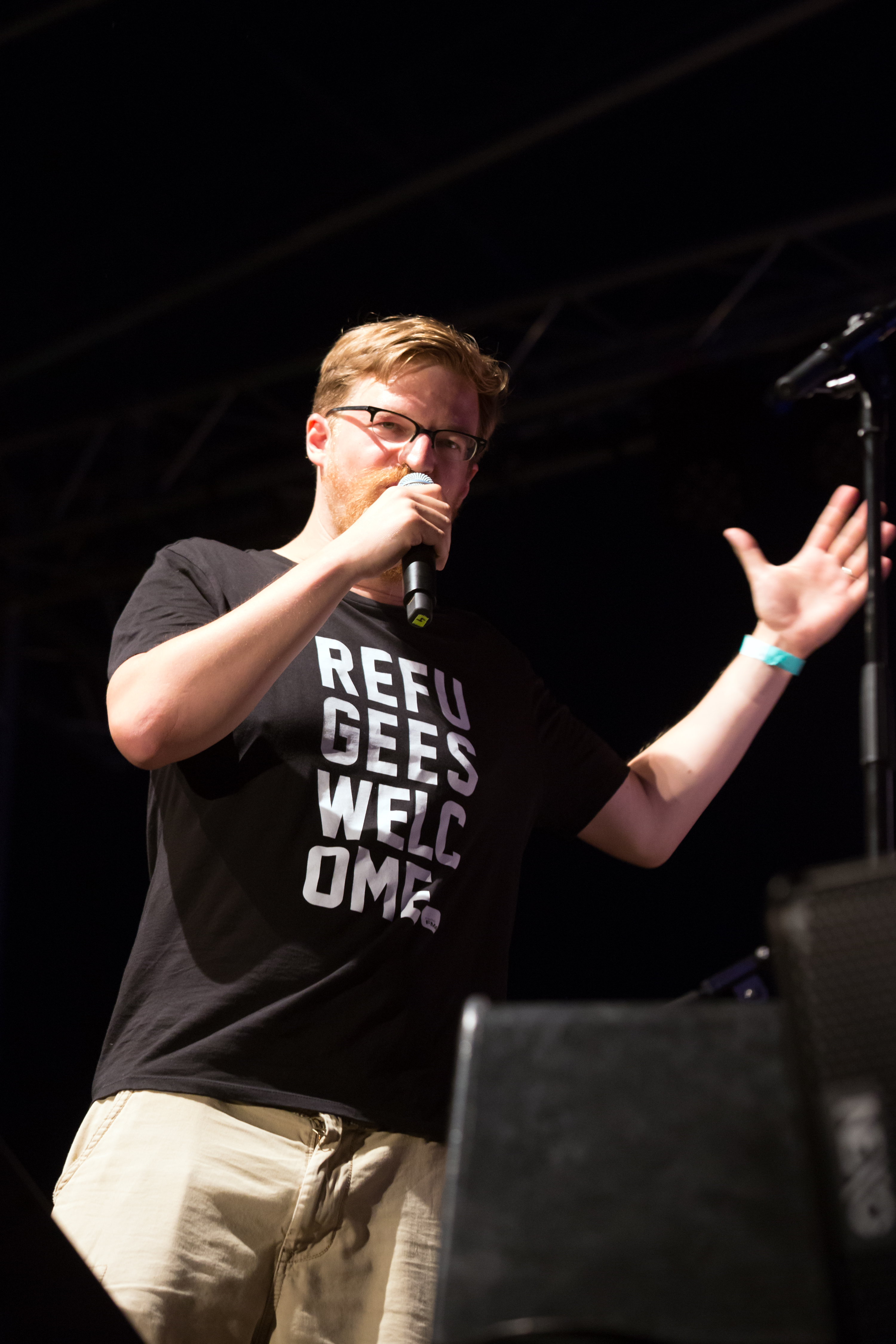 Trishes before the concert of Dubblestandart and Lee "Scratch" Perry at Popfest 2015; Karlsplatz in Vienna, Austria.